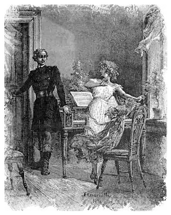 Illustration of Pan Tadeusz, Book 1